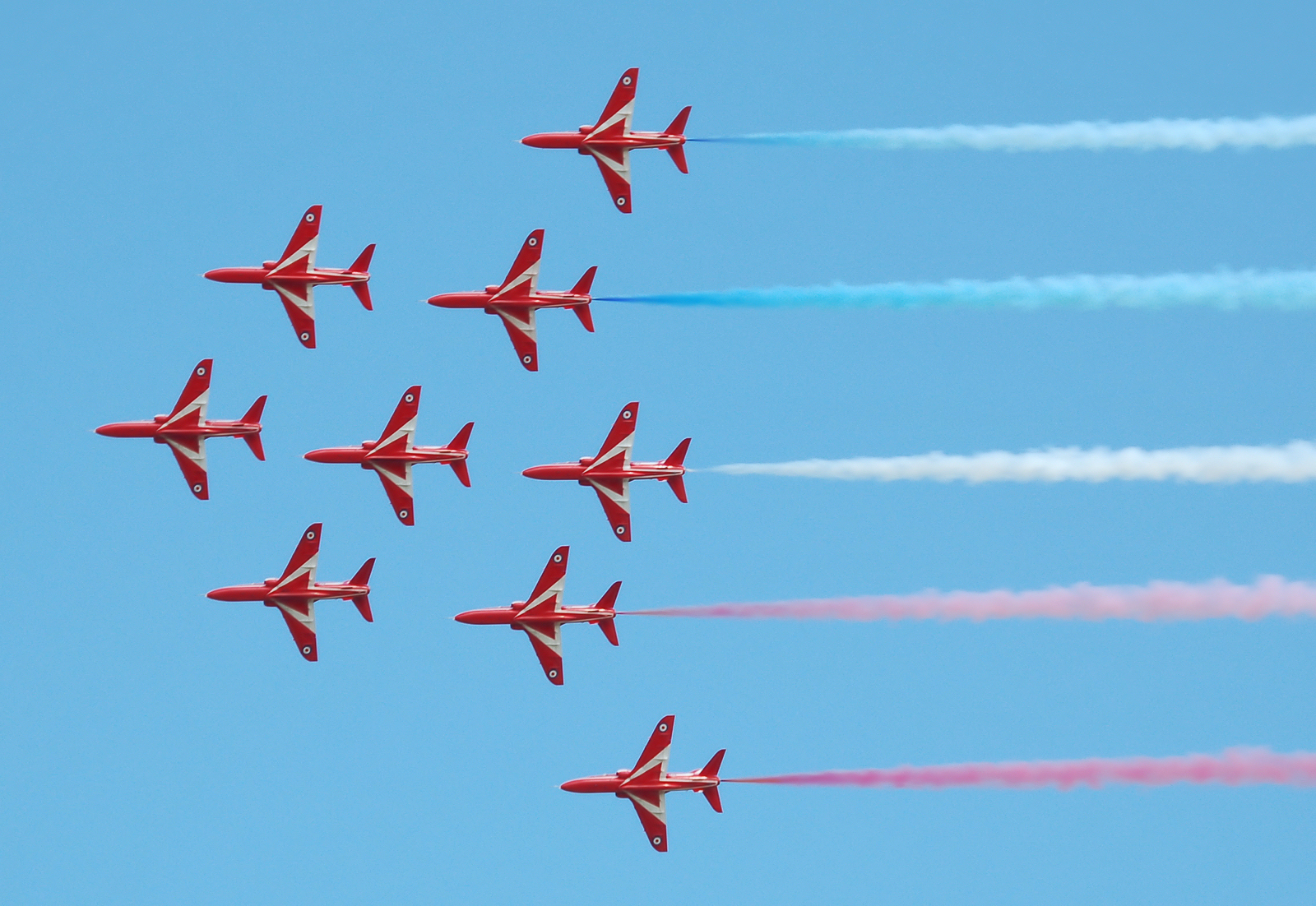 The nine British Aerospace Hawks of the Red Arrows, in Apollo formation, at the Cotswold Air Show at Cotswold Airport, Kemble, Gloucestershire, England.